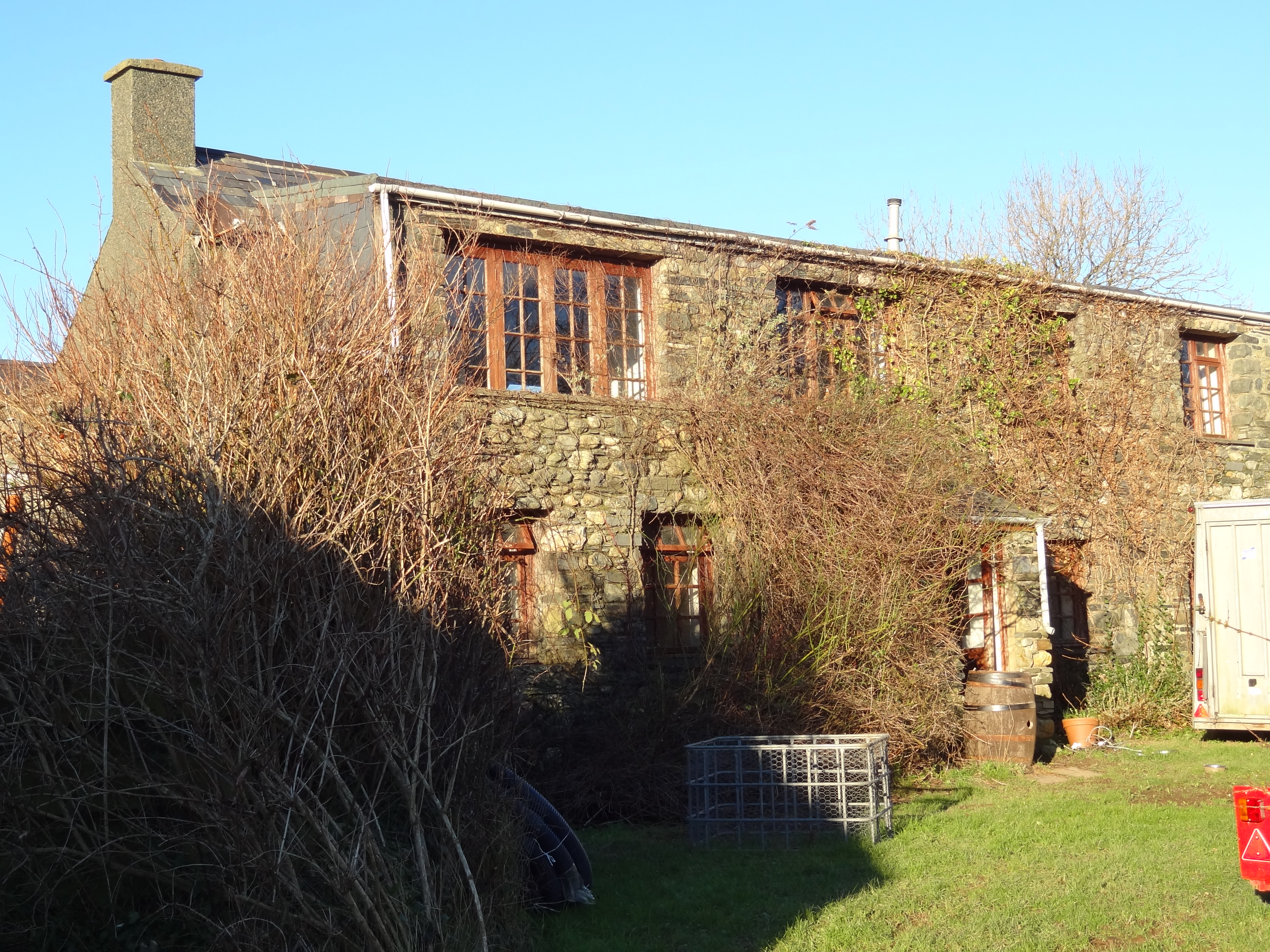 Ysgubor Ddegwm (The Tithe Barn)Tywyn, (renovated)